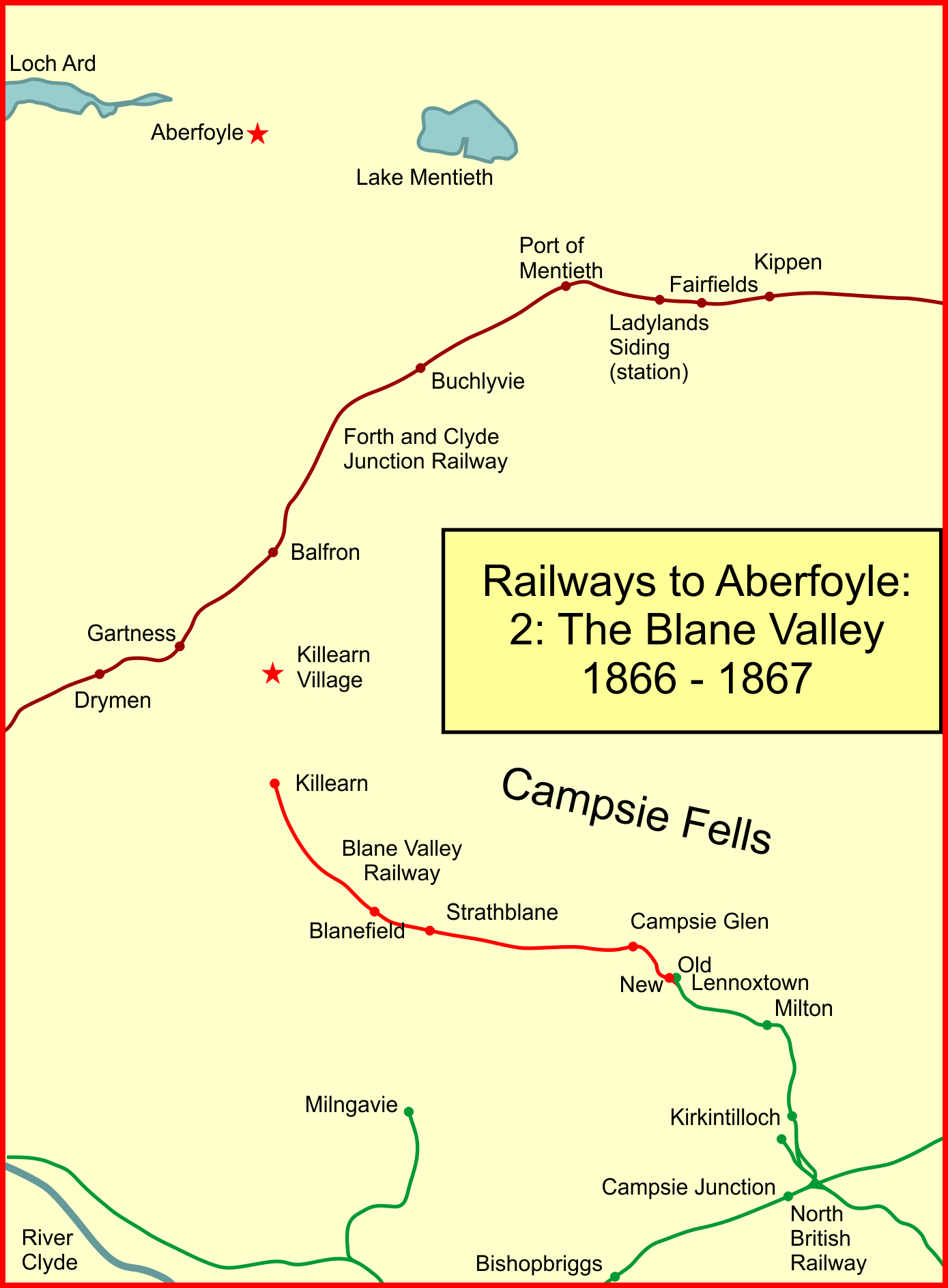 System map of the Blane Valley Railway line in Scotland in 1867